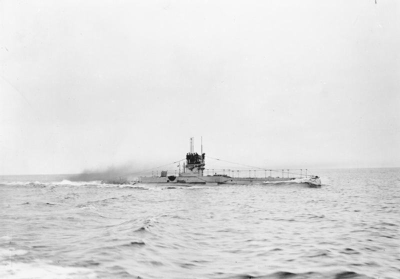 Photograph of British submarine HMS E42 on trials.